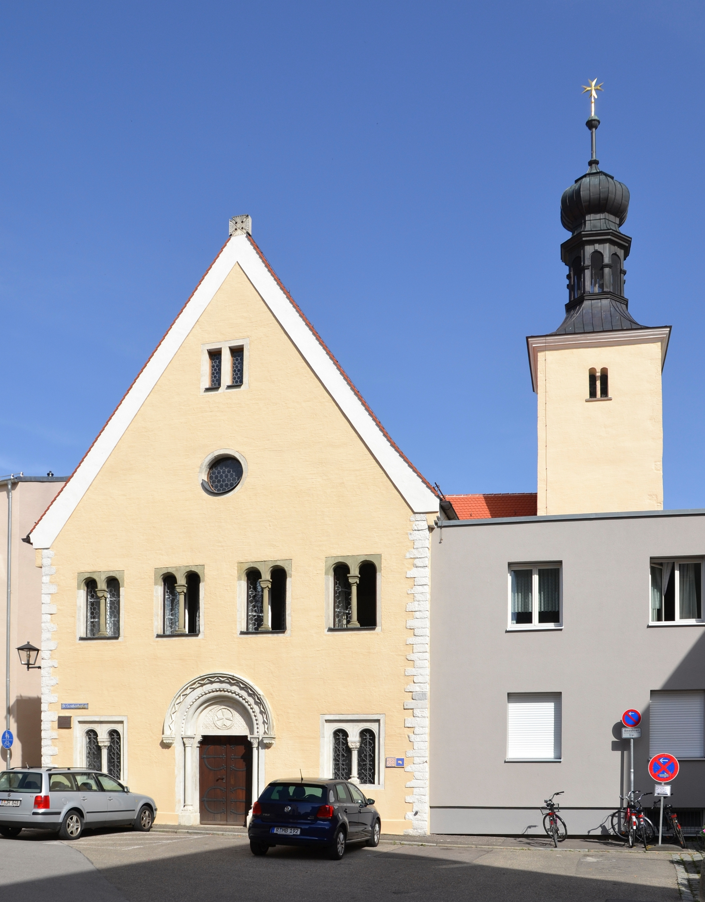 The Johanniterkirche St. Leonhard in Regensburg, Bavaria.